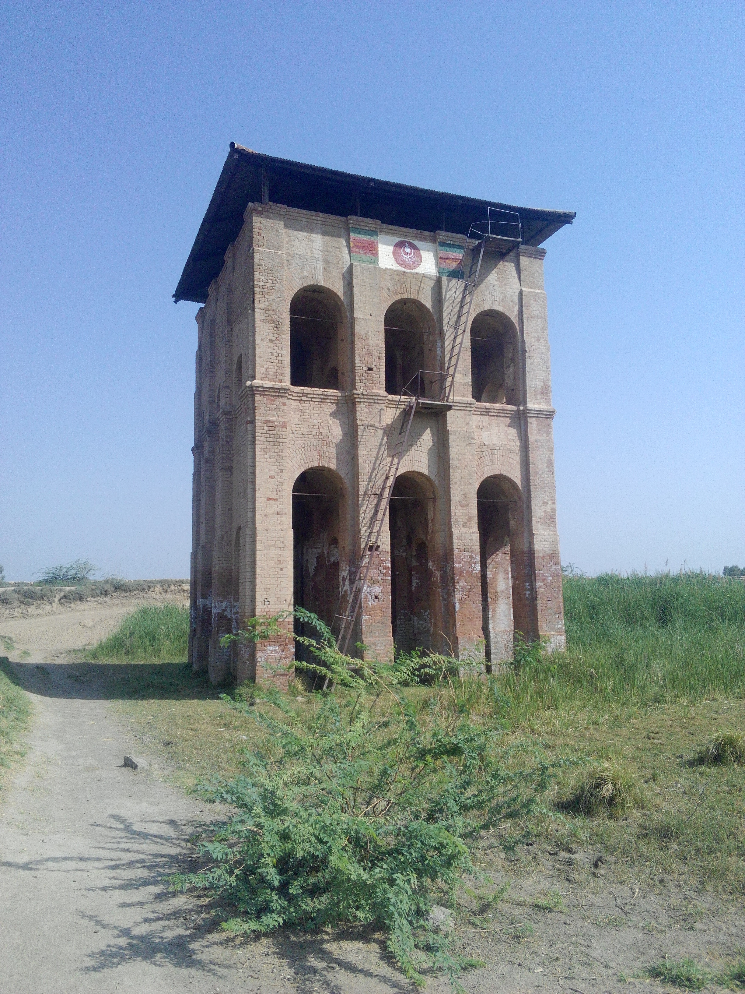 Historical building of British era .